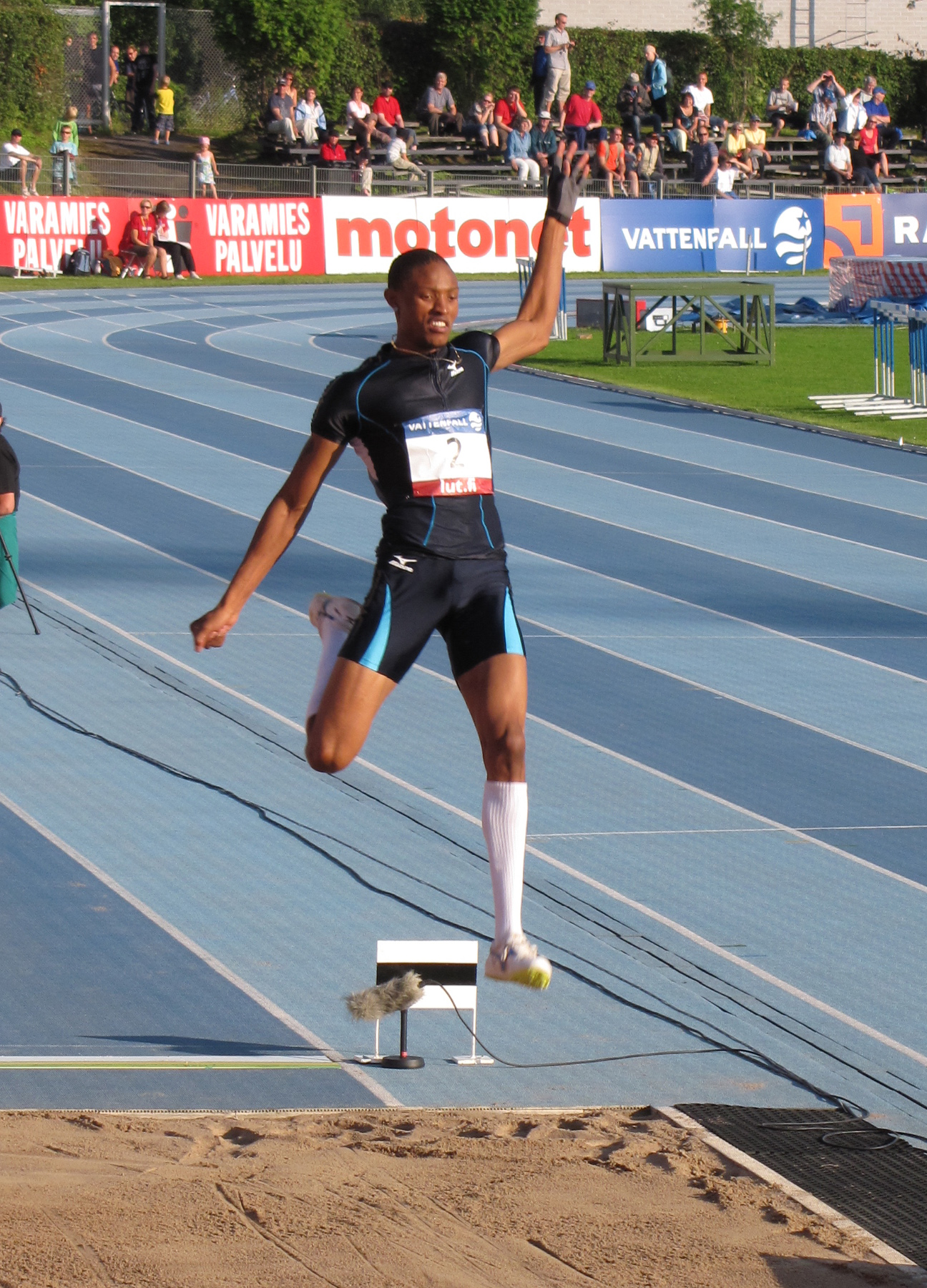 Godfrey Khotso Mokoena at Lappeenranta Games 2009 (Finland).